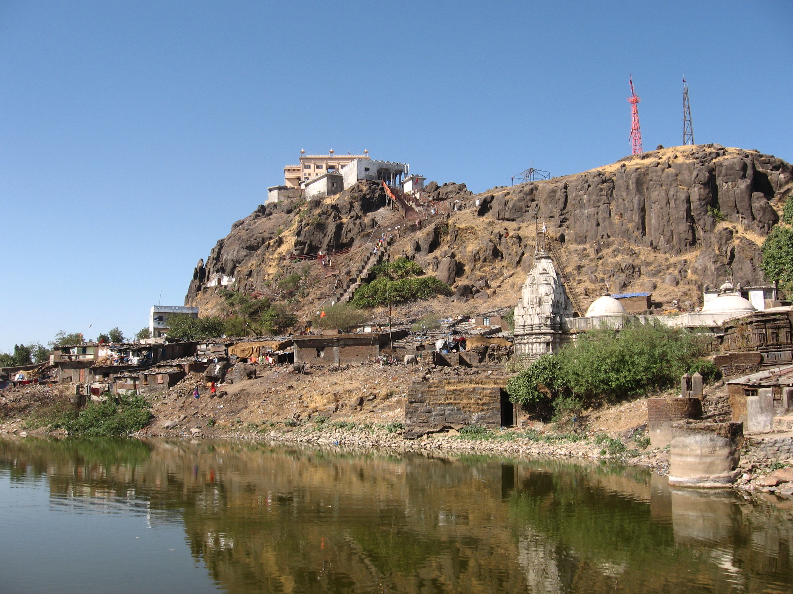 Sacred lake and hindu temple on the top of Pavadah hill, Gujarat